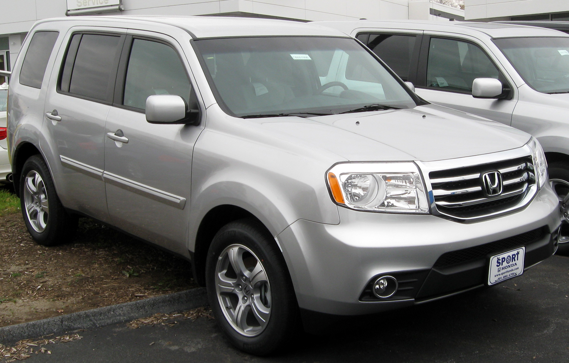 2012 Honda Pilot photographed in Silver Spring, Maryland, USA.